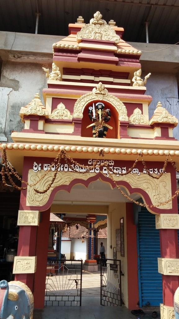 Kantheri Dhumavathi god. In local Tulu culture this kind of god is called daiva